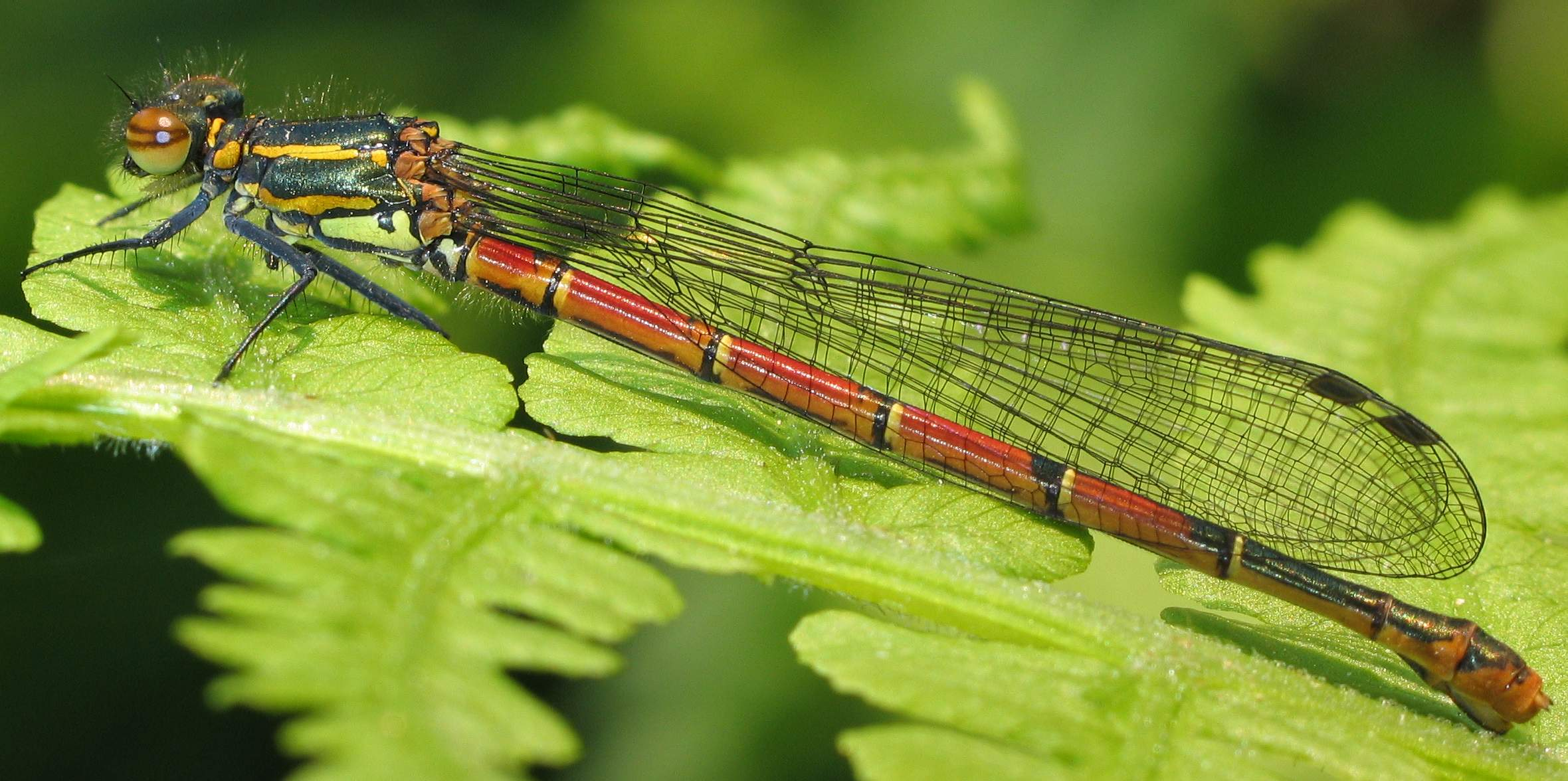 Author: soebe Date: May 7, 2006 Location: Hamburg, Northern Germany Taken by Soebe in Northern Germany and released under GNU FDL.